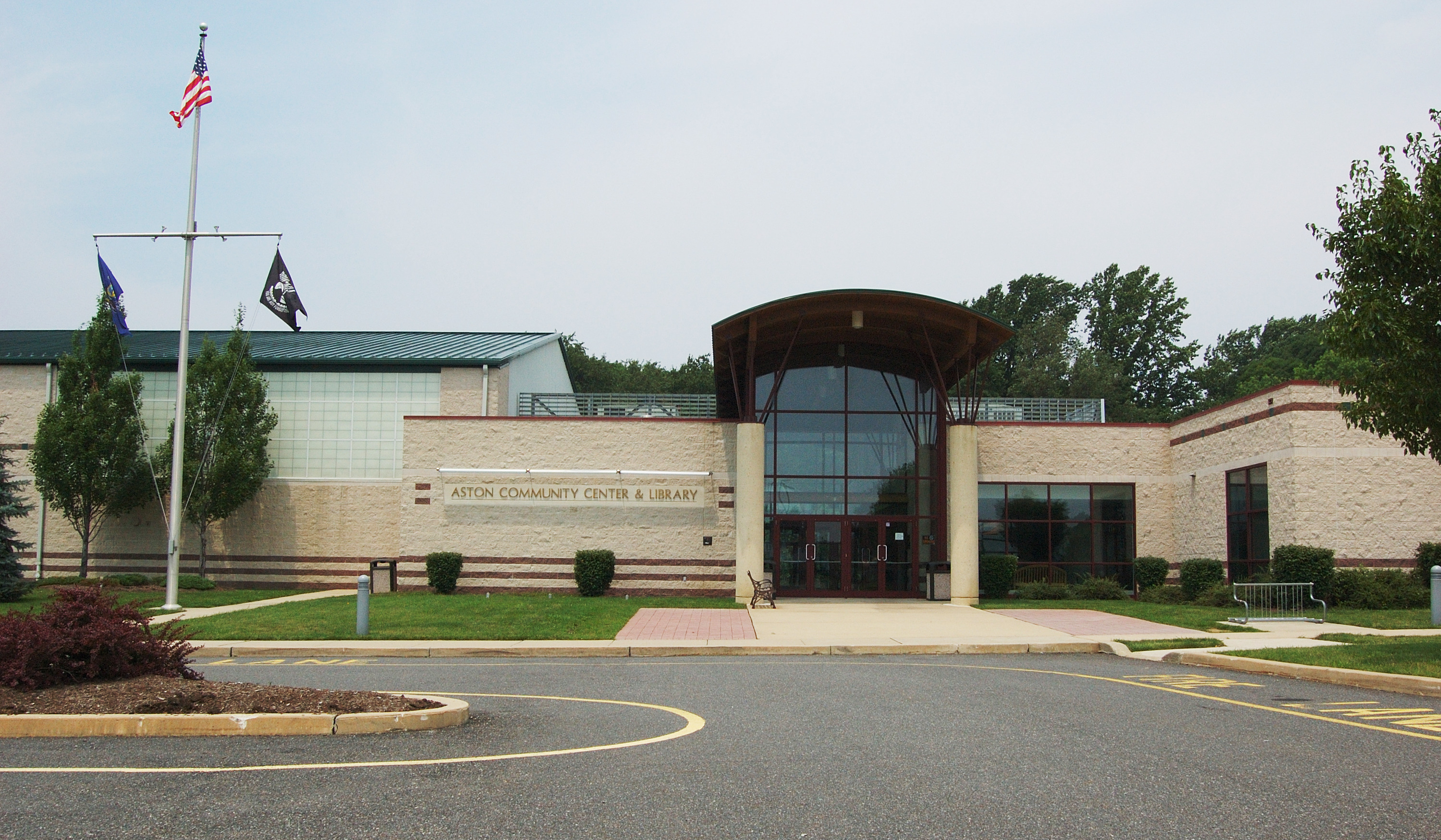 A photograph of the Aston Community Center and Library in Aston, Pennsylvania.